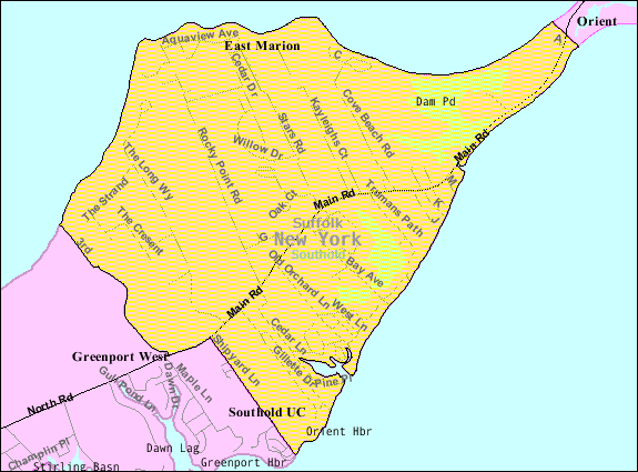 U.S. Census 2000 reference map for East Marion